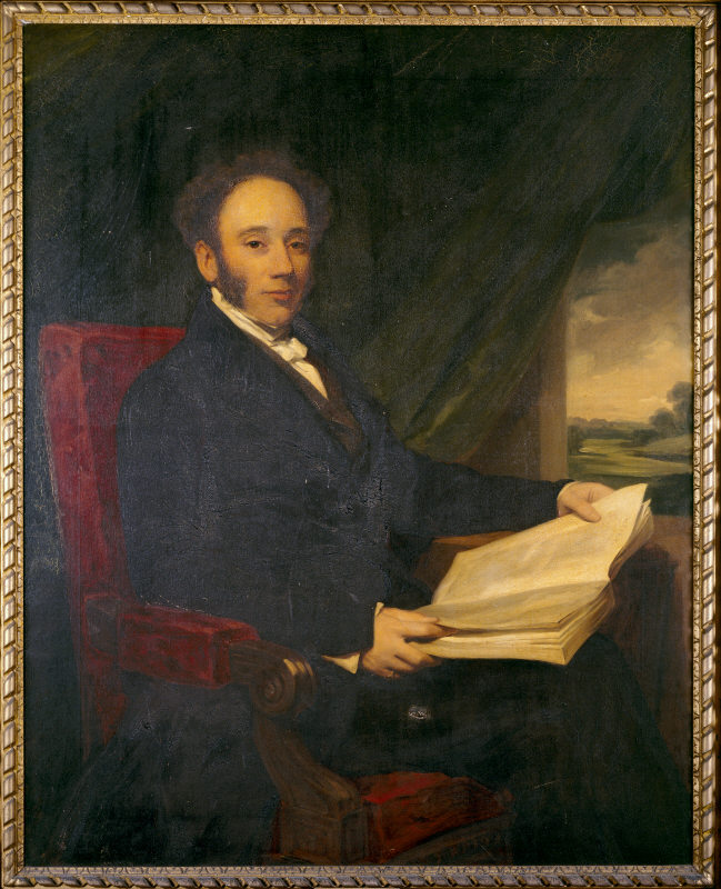 Say, Frederick Richard; William Lyde Wiggett Chute (1800-1879); National Trust, The Vyne